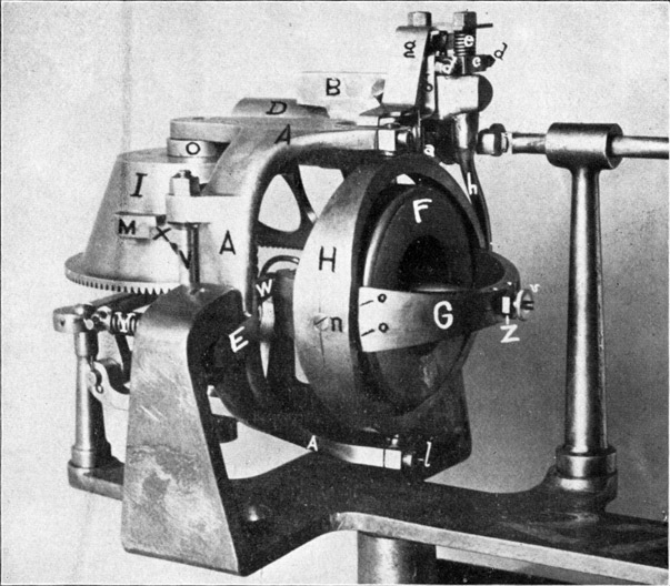 The Obry steering-device found in Whitehead torpedoes. The gyroscope is labelled F, G, H. Published in The Whitehead Torpedo U.S.N., 1898, a manual for the most important early torpedoes used by the U.S. Navy. The book covers the 45c/m. x 3.55m. Mark I, Mark II, Mark III and and 45c/m. x 5m. Mark I. Details of Obry Gear: A frame. B valve-body. D air-cushion cylinder. E frame-lugs. F gyroscope wheel. G inner ring. H outer ring. I impulse-sector. M boss. O stop-arm. V vertical rock-shaft. W centering-arm. X boss arm. Y rock-shaft spring. Z counter-weight. a control-pin. b valve-arm. c valve-plug. dd valve-plug adjusting-screws. ee valve-plug springs. g valve guard. h air-pipe to valve. j steering-rod coupling. ll frame pivot clamping-screws. nn outer-ring pivots. oooo outer-ring clamping-screws. v counter-weight jamb-nut.